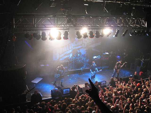 Bowling for Soup performing on January 6th, in 2007. Standing from left: Chris Burney, Jaret Reddick, Eric Chandler. Gary Wiseman behind the drums.